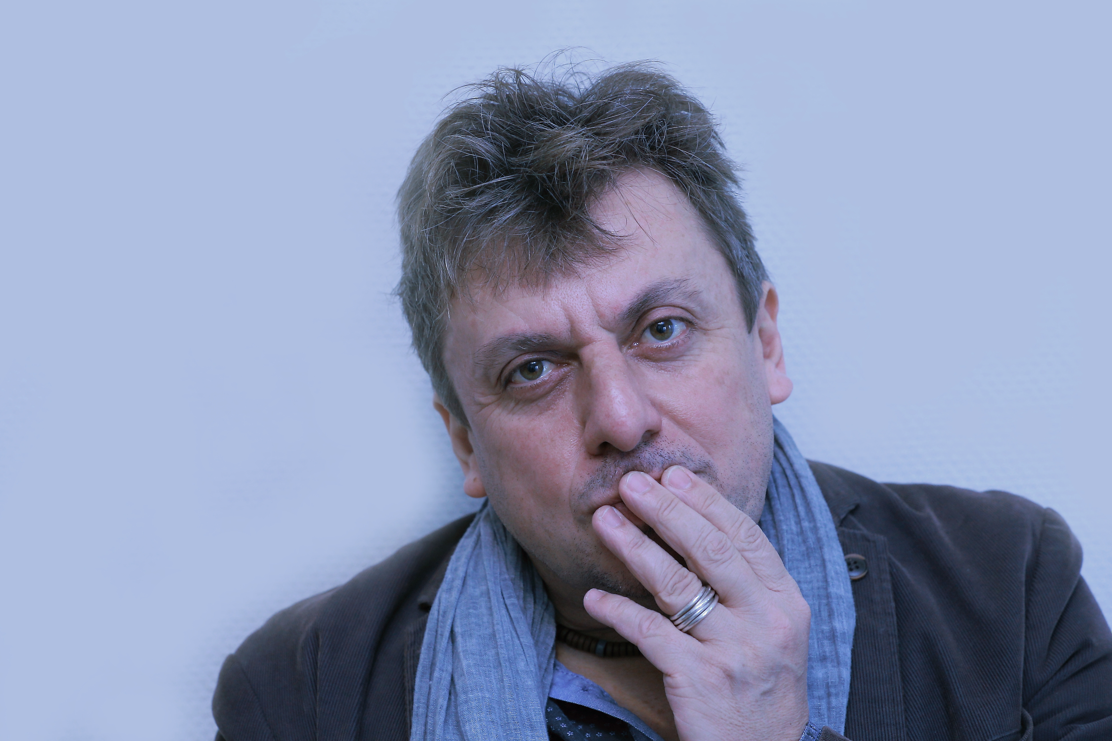 Gianluigi Gianni Salvioni 2015